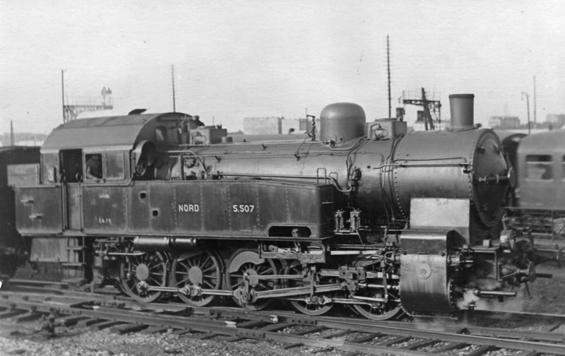 Steam locomotive 050 Nord 5.507.